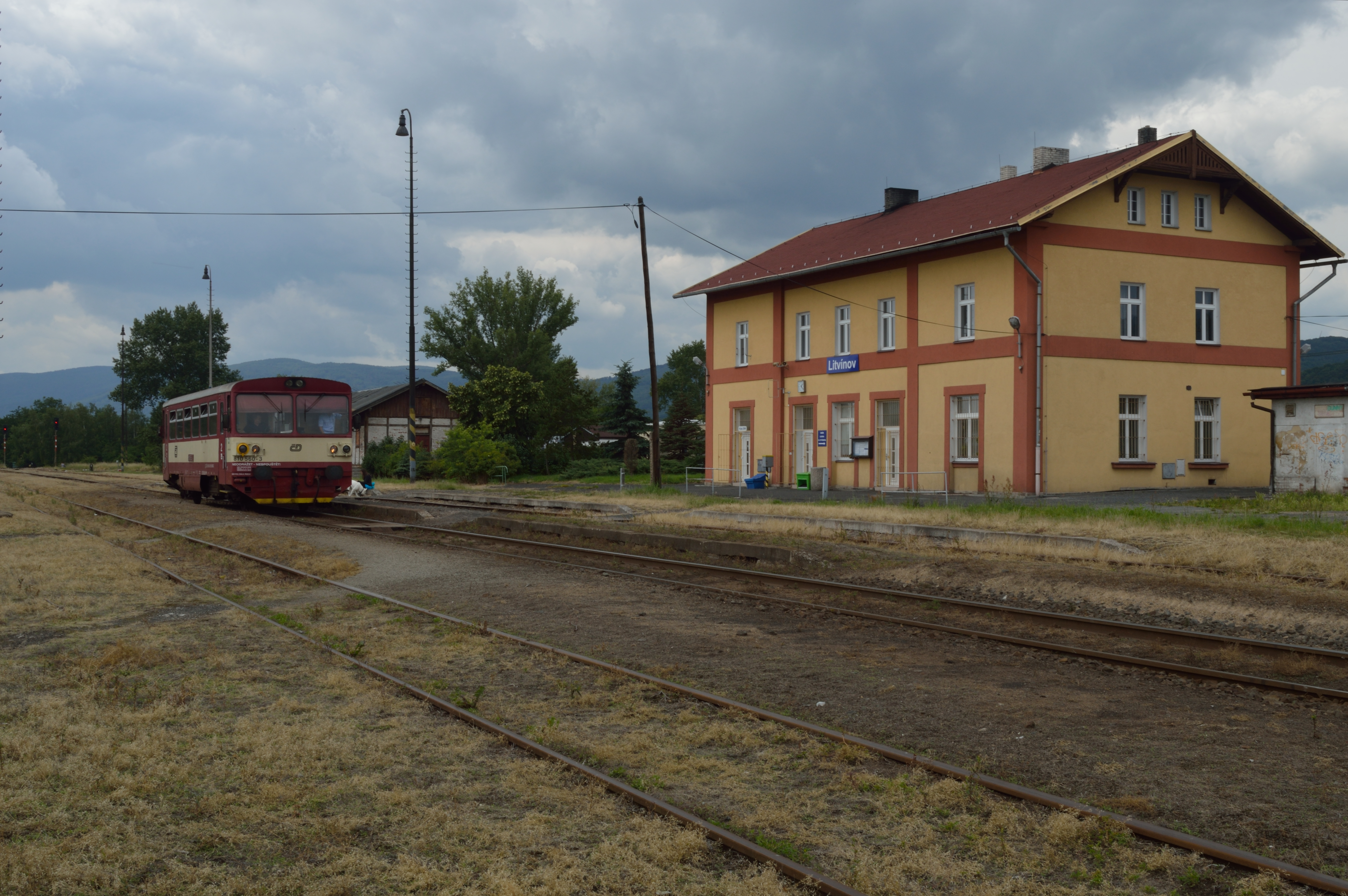 Short non-electrified branch into Litvínov sees single railcar 810.560 on 25 June 2015. Train Os16965, 13:34 Litvínovto Louka u Litvínova.